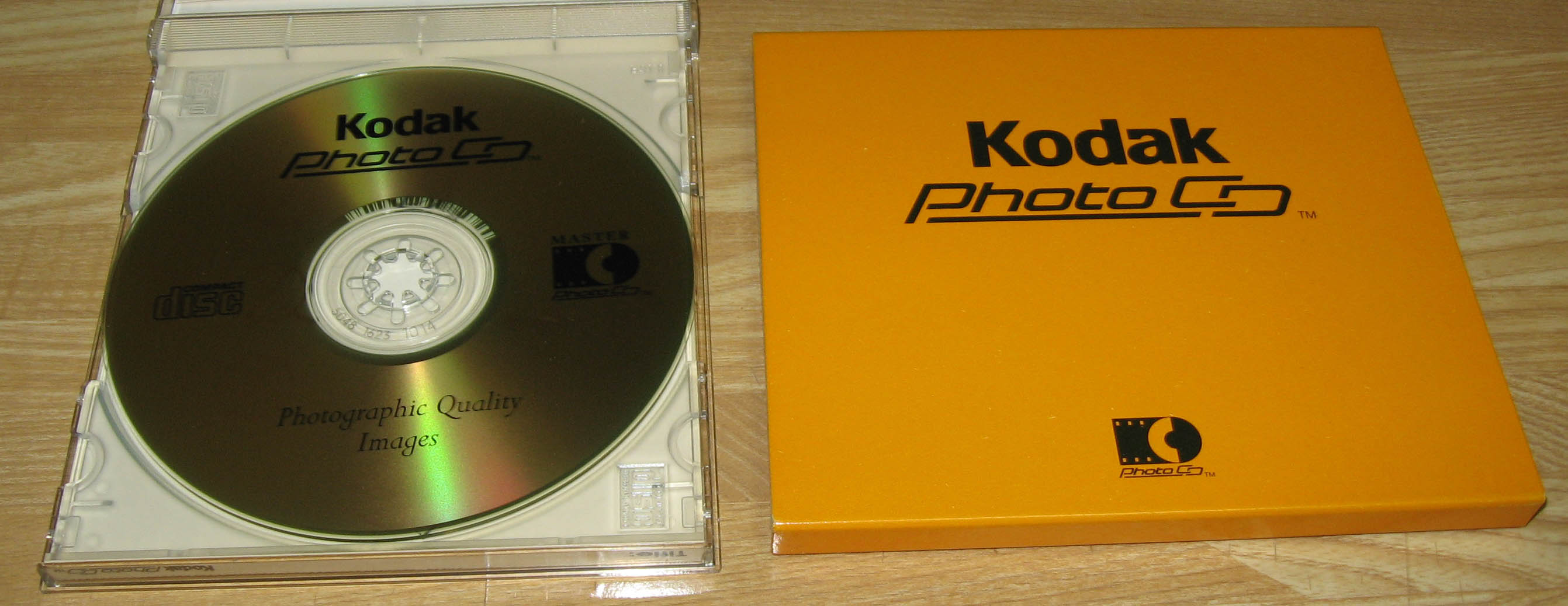 Kodak Photo CD Package